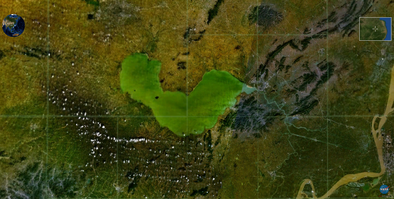 Satelites image of Chao Lake, China, by NASA World Wind